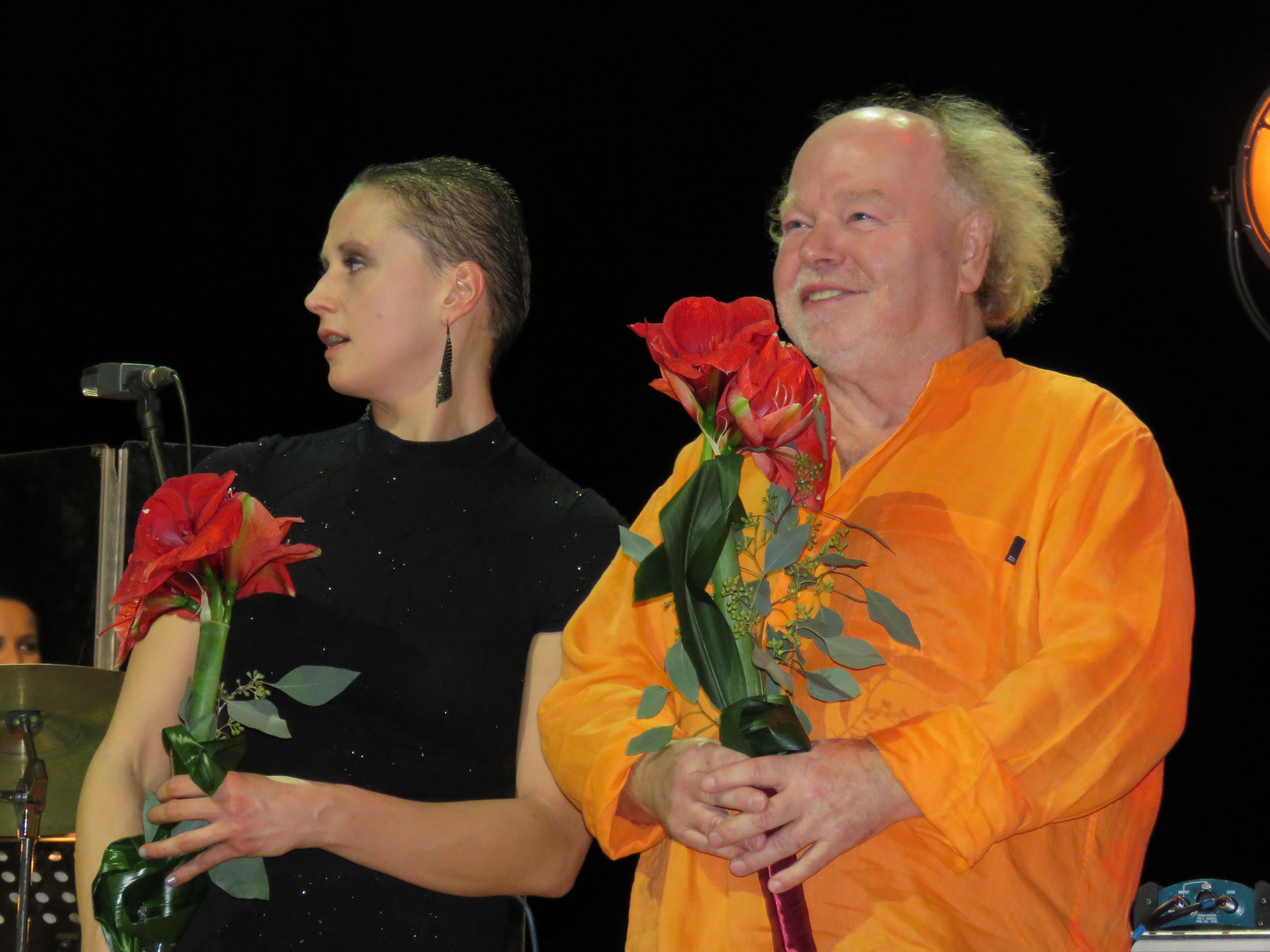 Natalia Sikora (b. April 22, 1986 in Słupsk, Poland) – Polish rock singer and actor, and Stanisław Wenglorz (b. August 22, 1950) – Polish rock singer, vocalist of Budka Suflera and Skaldowie.